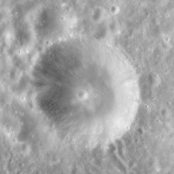 Slightly oblique view Elmer, on the far side of the moon.